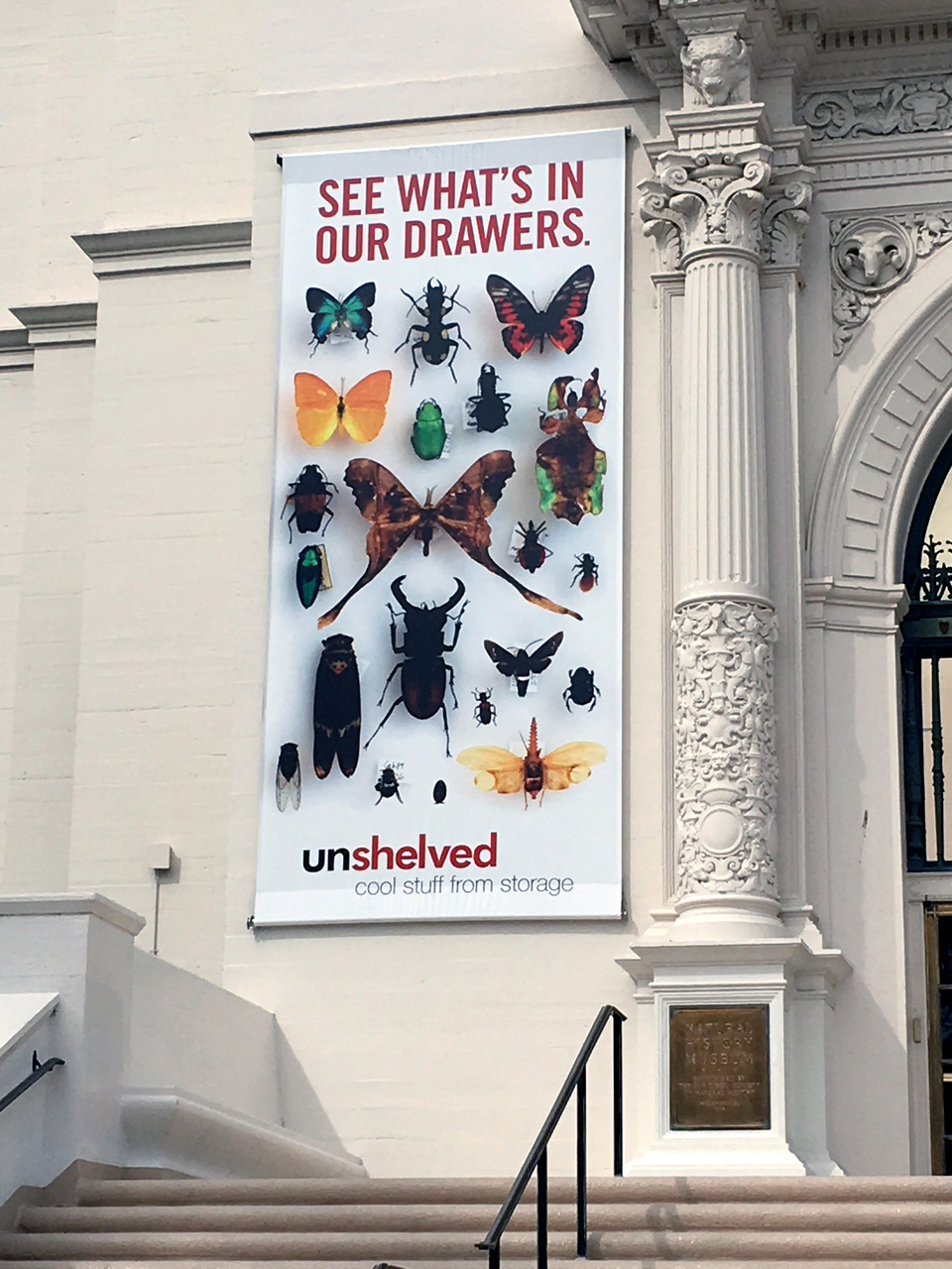 Exterior of the San Diego Natural History Museum in Balboa Park, showing banner for the exhbition "Unshelved: Cool Stuff from Storage." March 2018